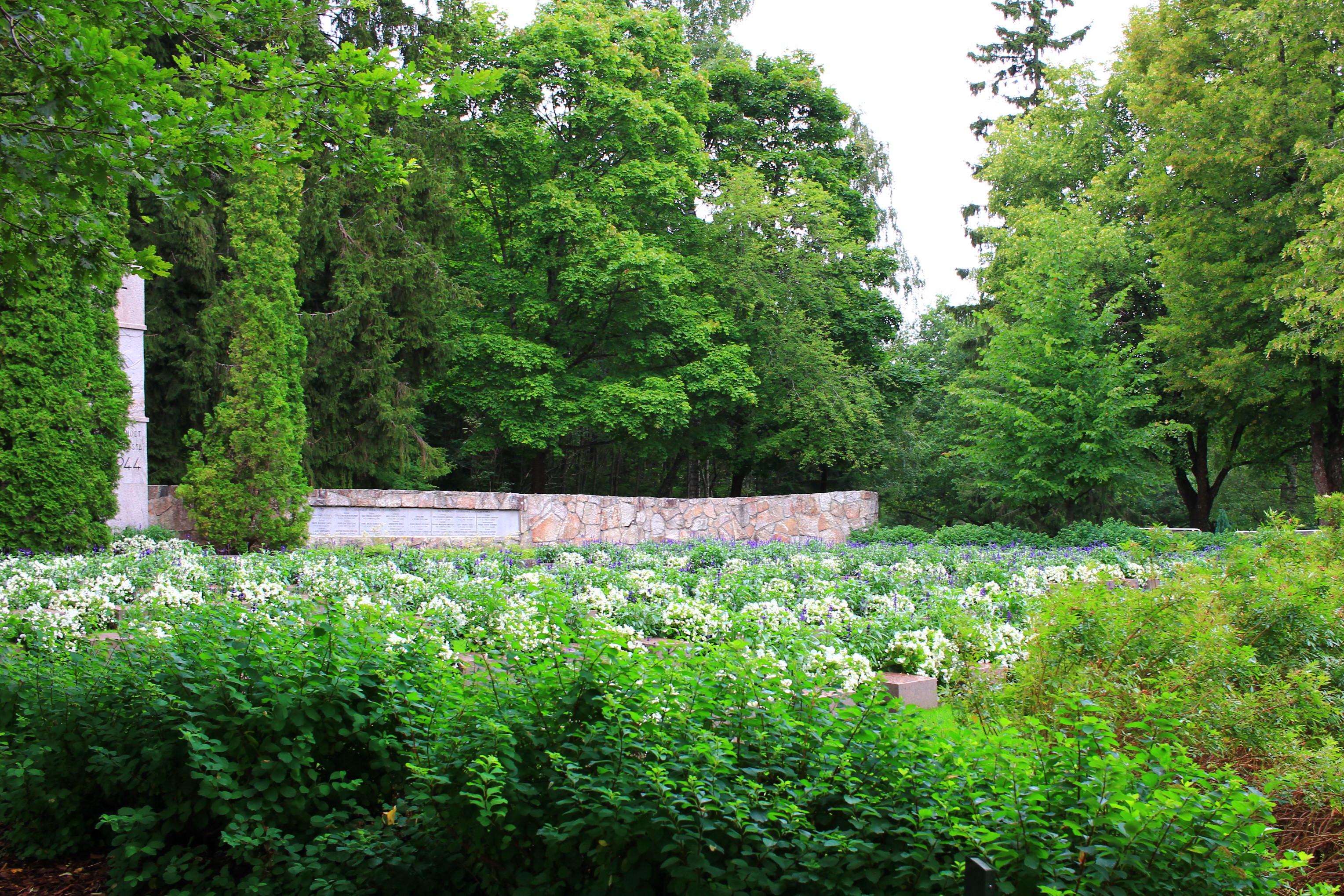 Espoo cathedral military graves 1939-1944, Espoo, Finland. - General design architect Rafael Blomstedt, memorial statue designed by sculptor Carl Wilhelms (1950).